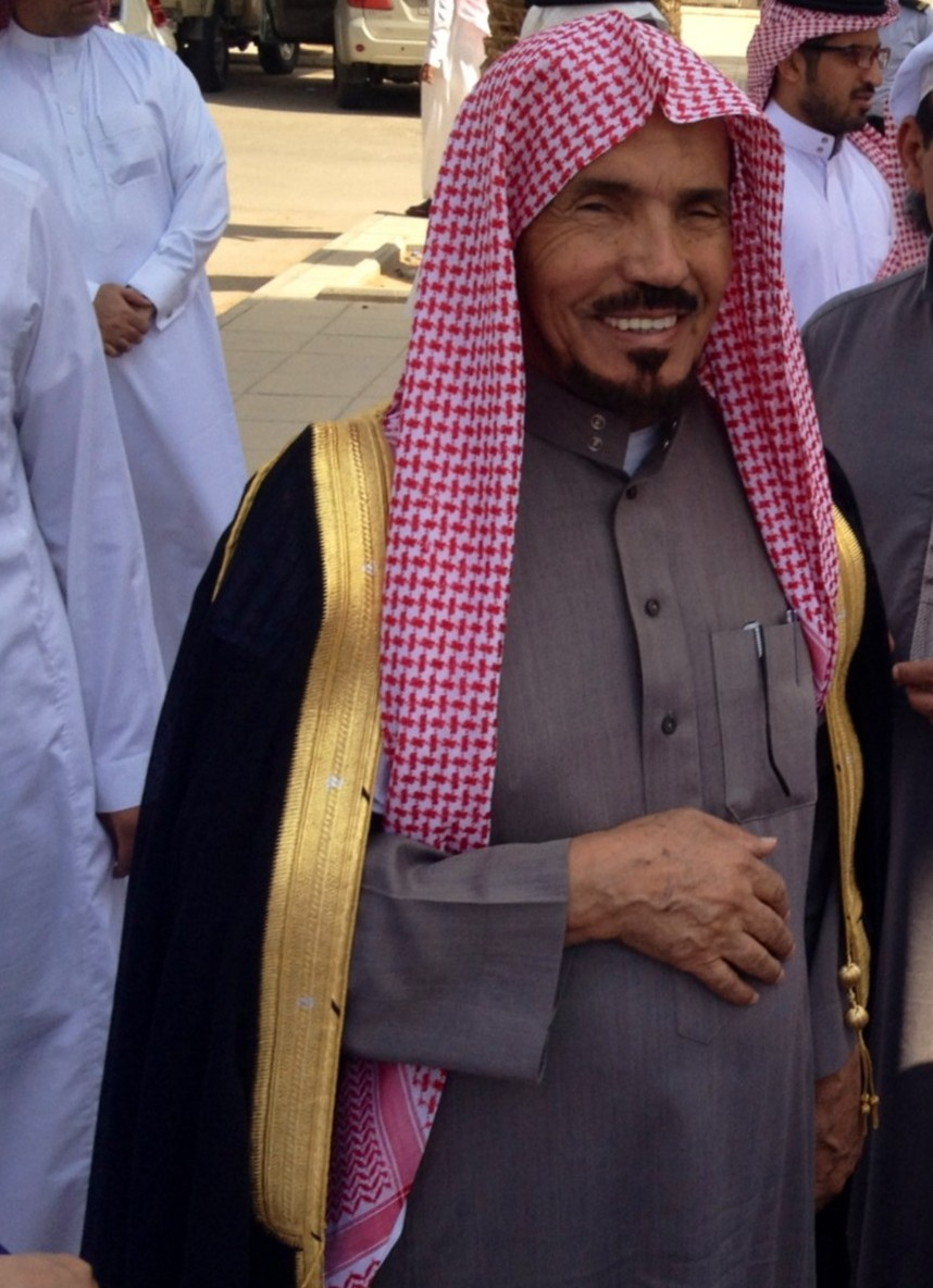 Lawyer Suliman al-Roshoudi after the sixth trial hearing session of ACPRA members.